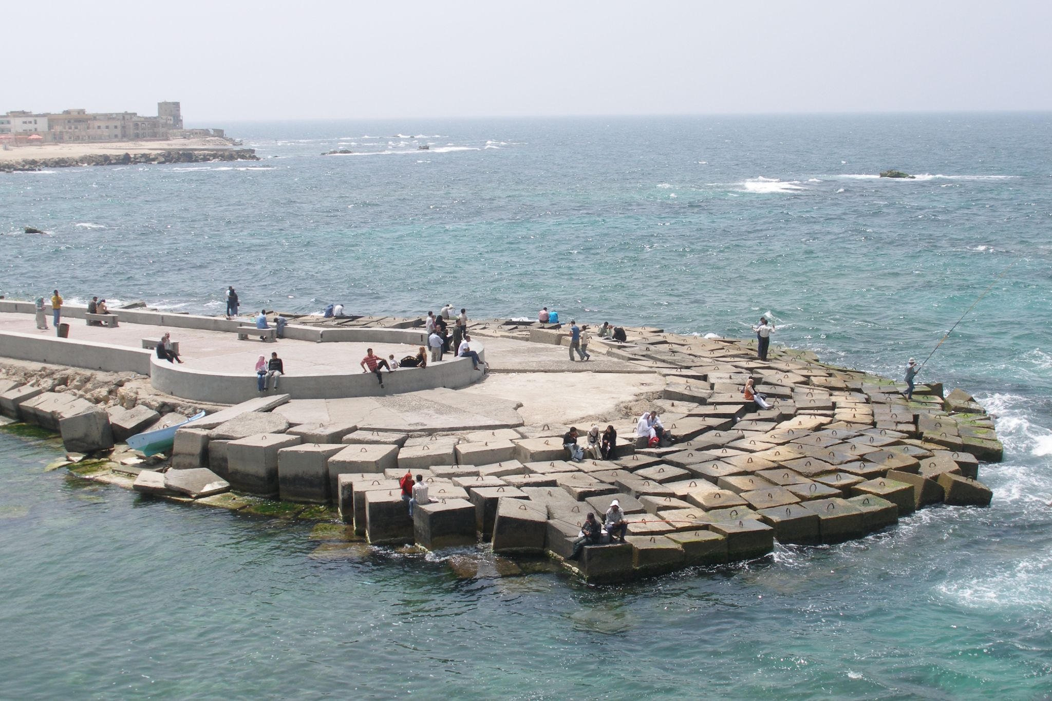 The original photo is at VascoPlanet™ photo library at: Alexandria (population of 3.5 to 5 million), is the second-largest city in Egypt, and its largest sea port. Alexandria extends about 20 miles (32 km) along the coast of the Mediterranean sea in north-central Egypt. It is home to the Bibliotheca Alexandrina, the New Library of Alexandria, and is an important industrial centre because of its natural gas and oil pipelines from Suez. The city of Alexandria was named after its founder, Alexander the Great, and as the seat of the Ptolemaic rulers of Egypt, quickly became one of the greatest cities of the Hellenistic world - second only to Rome in size and wealth.